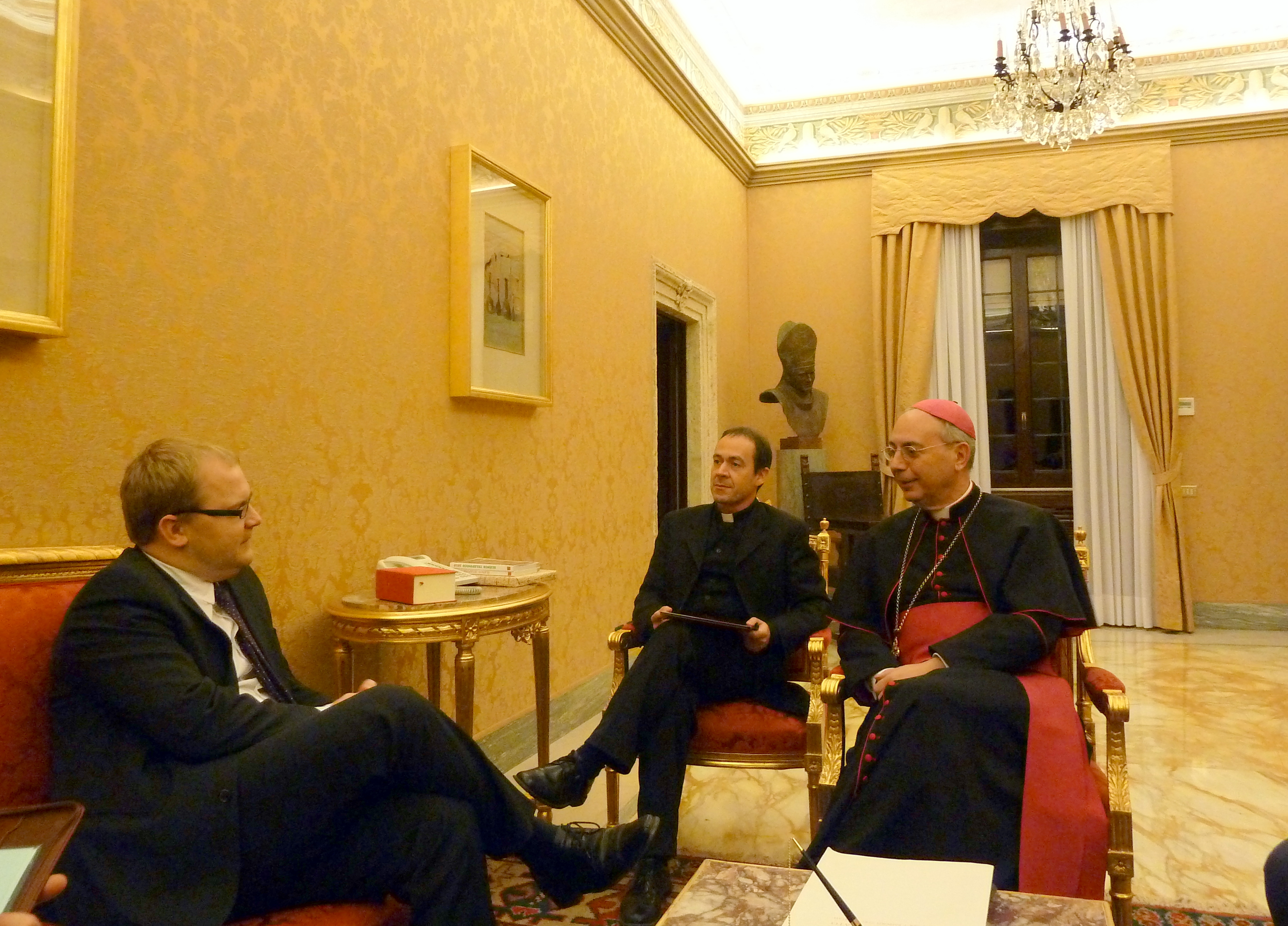 FM Urmas Paet Meeting meeting with Secretary for Relations with States, or foreign minister, of the Vatican Dominique Mamberti